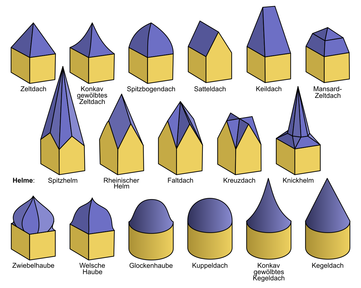 Forms of roofs on towers and church towers, with German labels